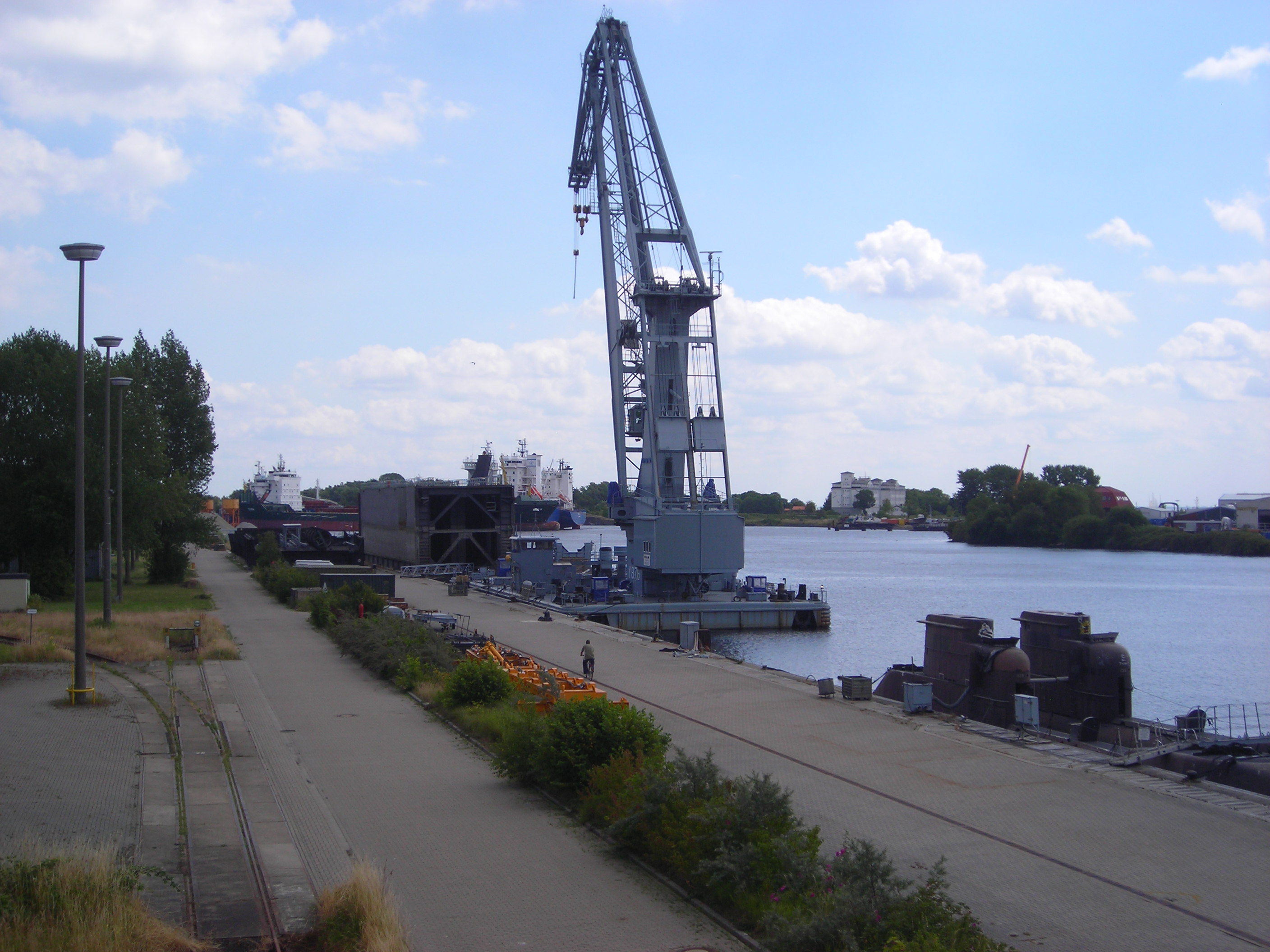 View of the Ausruestungshafen a part of the inner harbour of Wilhelmshaven. The picture shows in the foreground two decommissioned type 206 submarines of the German Navy (U 26, U 28) and the floating crane Griep of the Wilhelmshaven naval shipyard. Behind the crane a reserve door for the Wilhelmshaven lock is berthed. In the background some merchant ships are laid up and anchored due to the economical crisis.